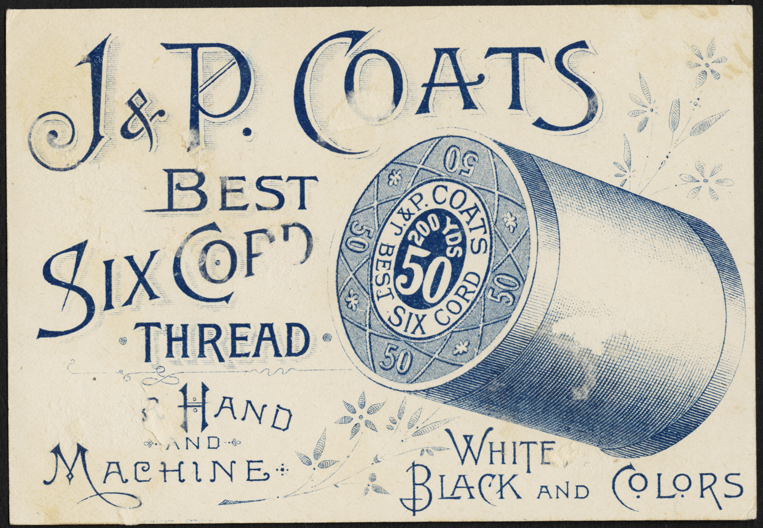 File name: 10_03_002280b Binder label: Thread Title: J & P. Coats Best Six Cord, 200 yds, 50 [back] Date issued: 1870 - 1900 (approximate) Physical description: 1 print : chromolithograph ; 7 x 11 cm. Genre: Advertising cards Subject: Adults; Flowers; Brooms & brushes; Thread; Cotton Notes: Title from item. Collection: 19th Century American Trade Cards Location: Boston Public Library, Print Department Rights: No known restrictions.